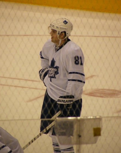 Taken at a Leafs game at the ACC vs. the New York Islanders